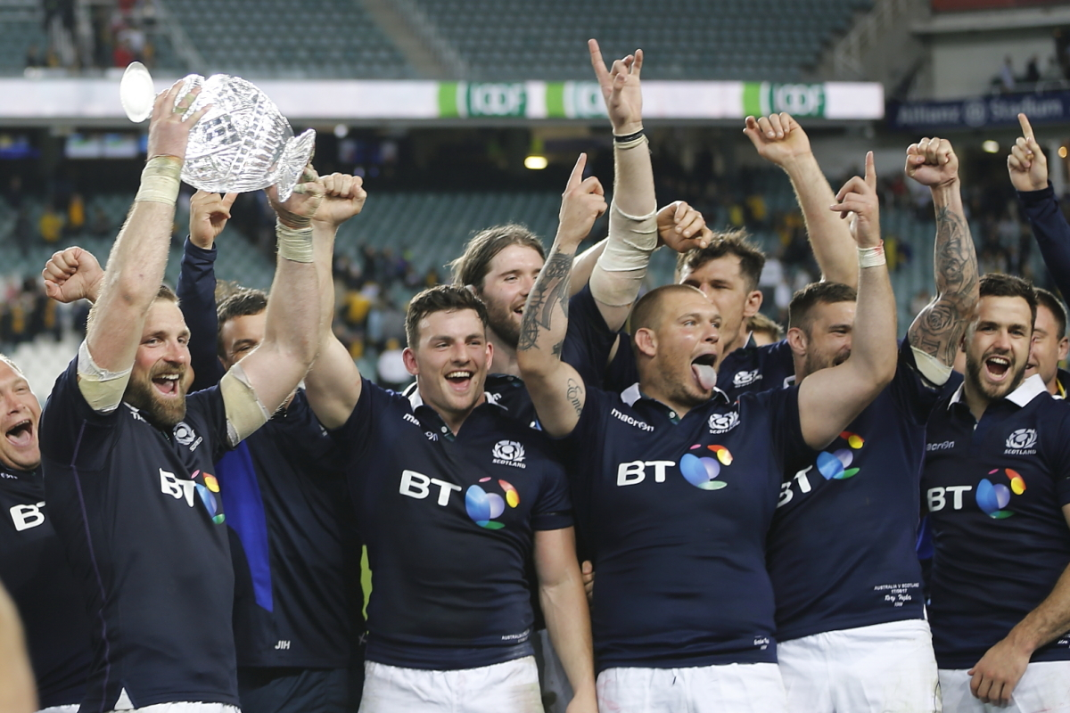 2017.06.17.17.07.31-AUSvSCO-0004 The 2017 mid-year rugby union international, 17 June 2017, Australia vs Scotland at Allianz Stadium, Sydney